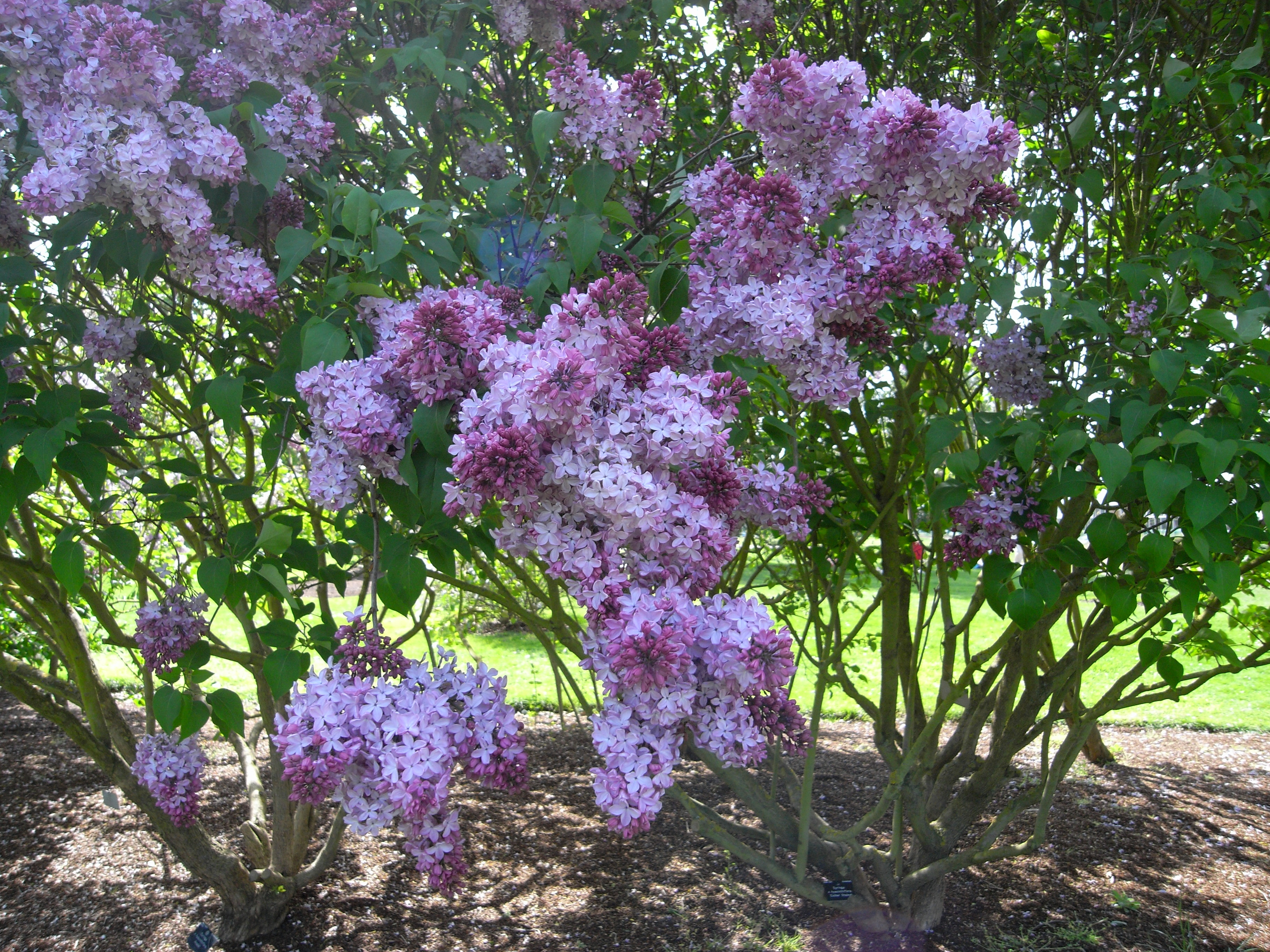 Syringa × hyacinthiflora "Esther Staley" in Kew Gardens, London.